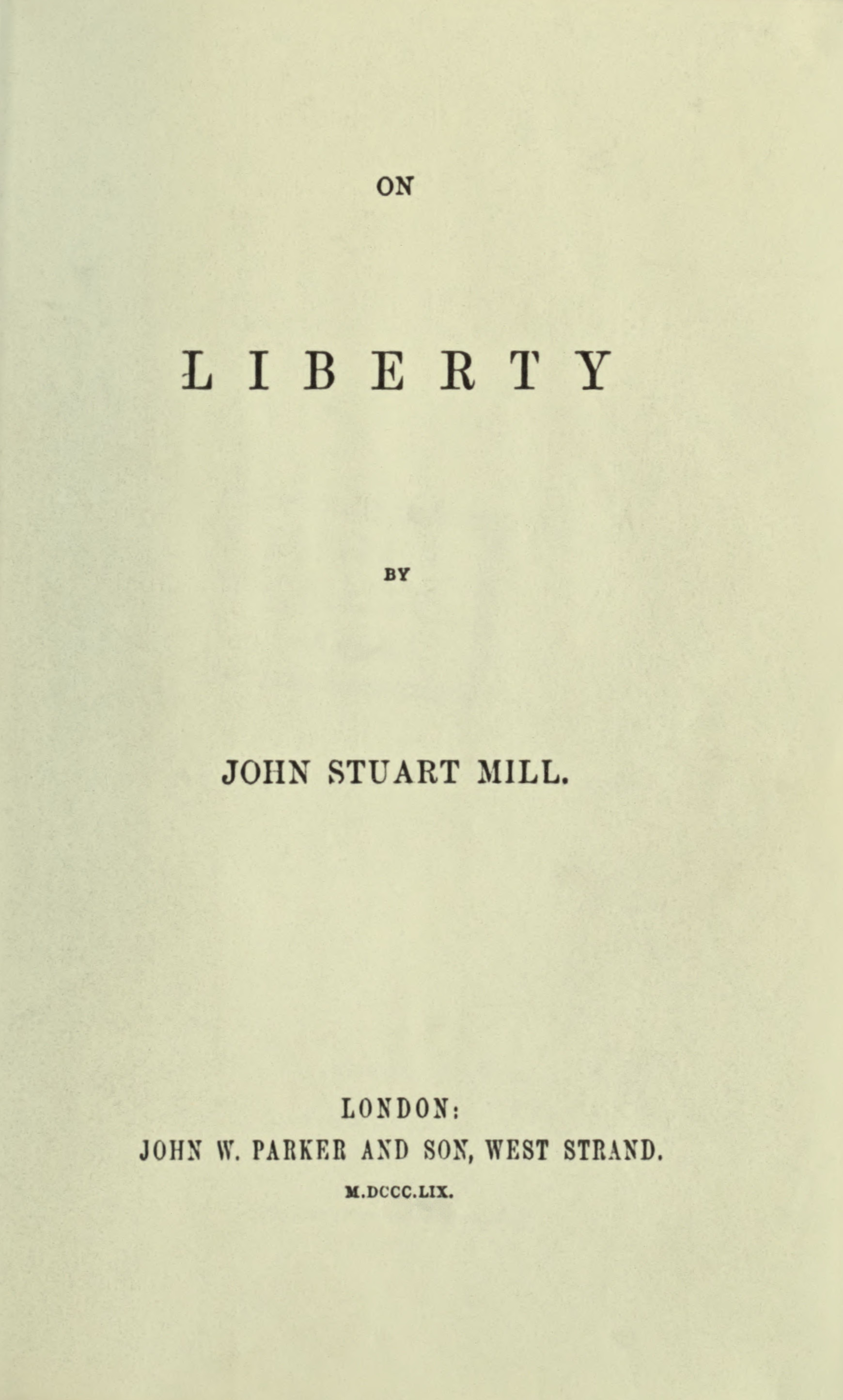 Title page of the first edition of On Liberty (1859) by John Stuart Mill, scan of a 1974 facsimile using microfilm-xerography by Xerox University Microfilms. Rotated, cleaned and cropped from the original full quality Internet Archive scan by Yodin.